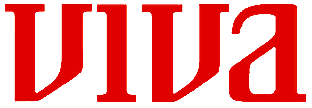 The first logo of Viva magazine of Argentina.